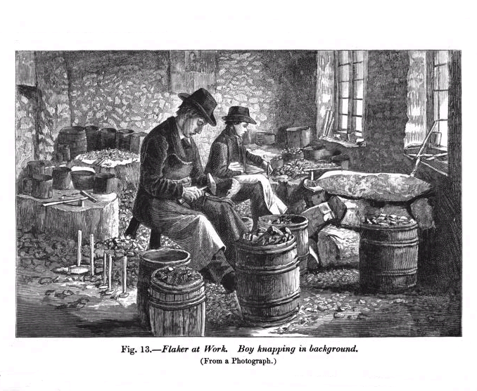 19th century knowledge primitive tools gun flint knapper at work